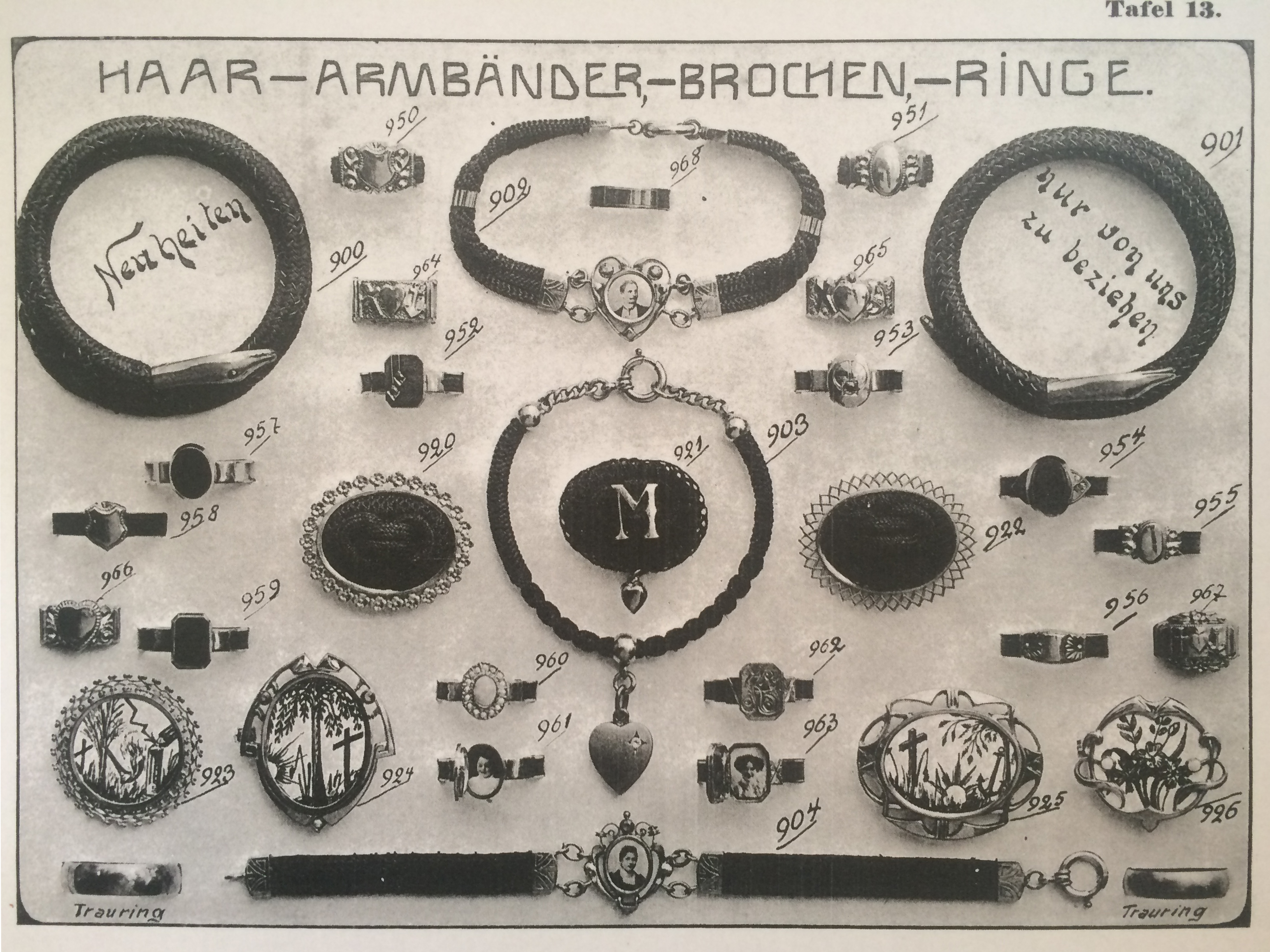 Advertisement for machine-made hair jewellery from a German firm.